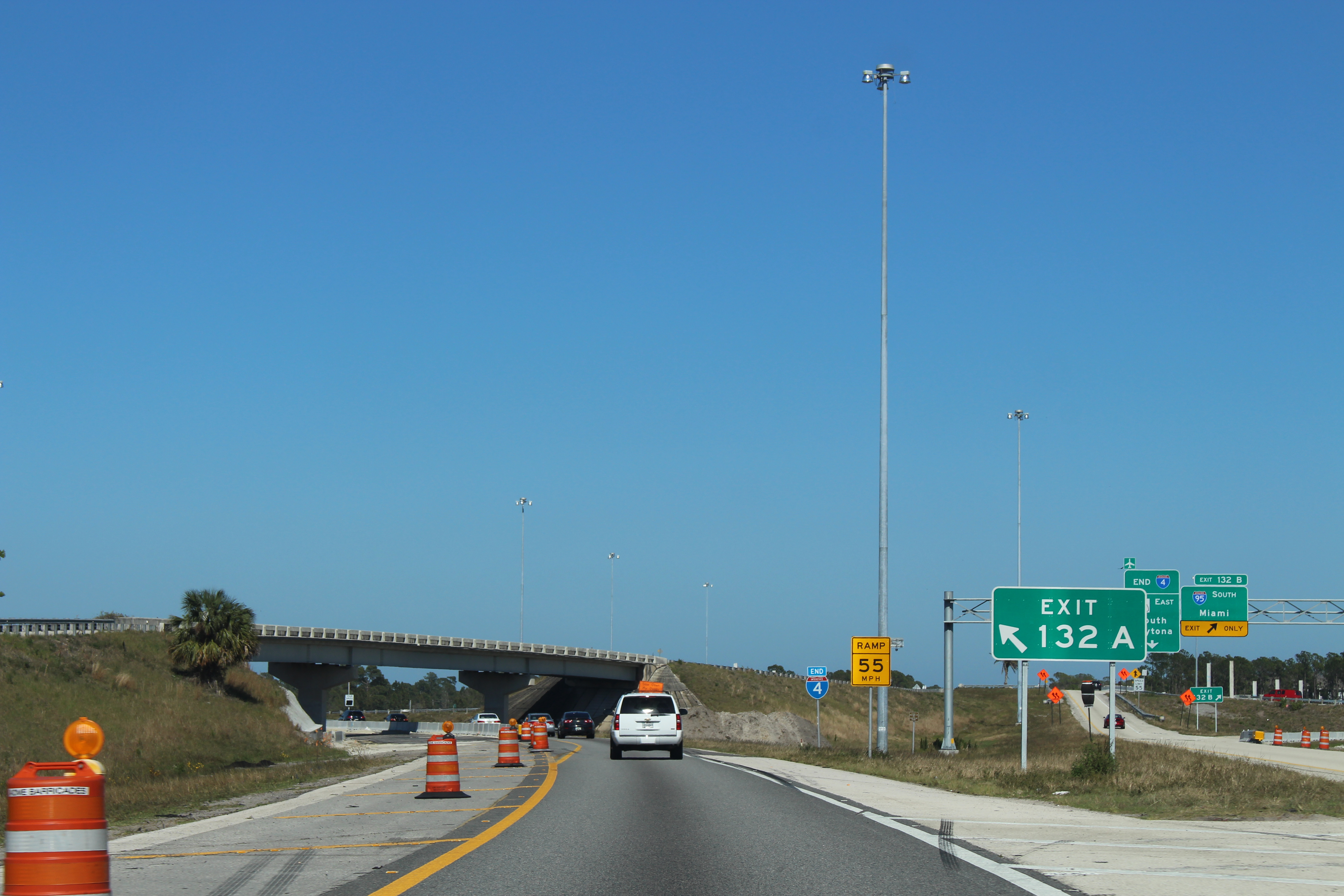 Florida I4eb End, Exit 132A, Volusia County, Florida